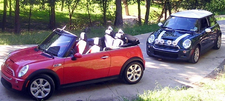 A Hot Orange 2005 BMW MINI Cooper 'S Convertible and a British Racing Green 2003 BMW MINI Cooper 'S Hardtop.